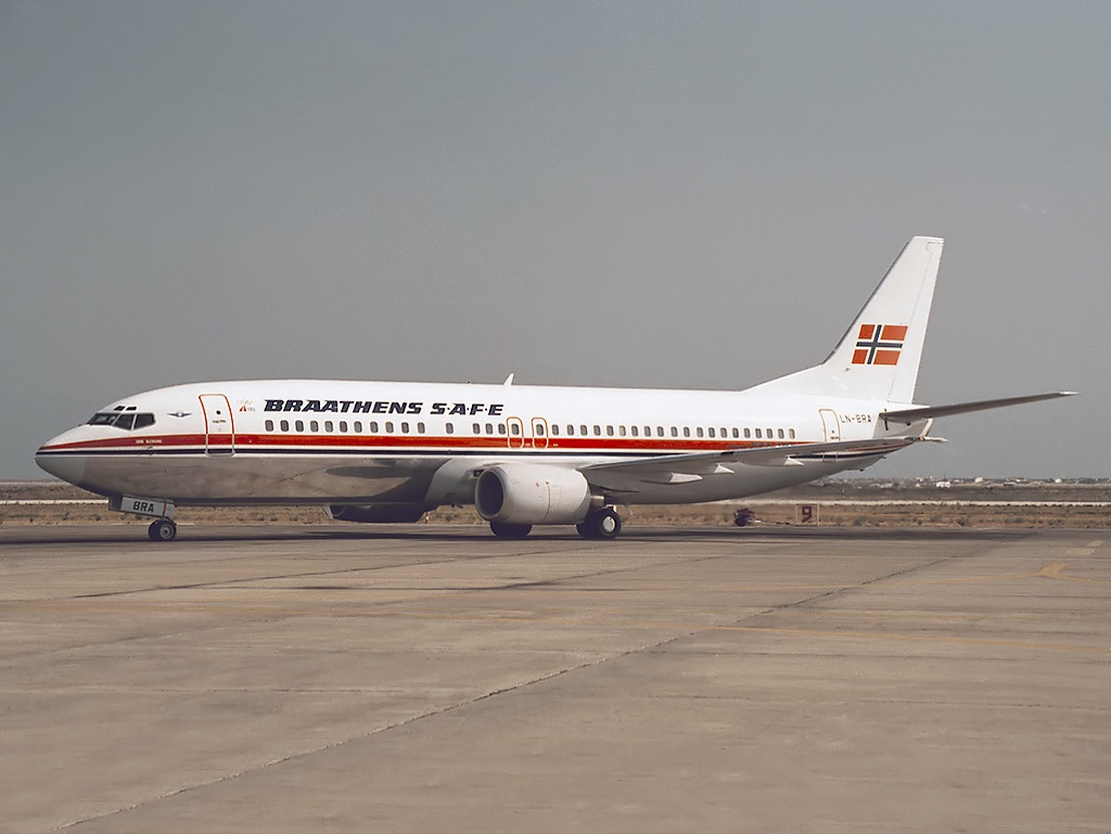 Braathens SAFE Boeing 737-405 LN-BRA at Faro Airport